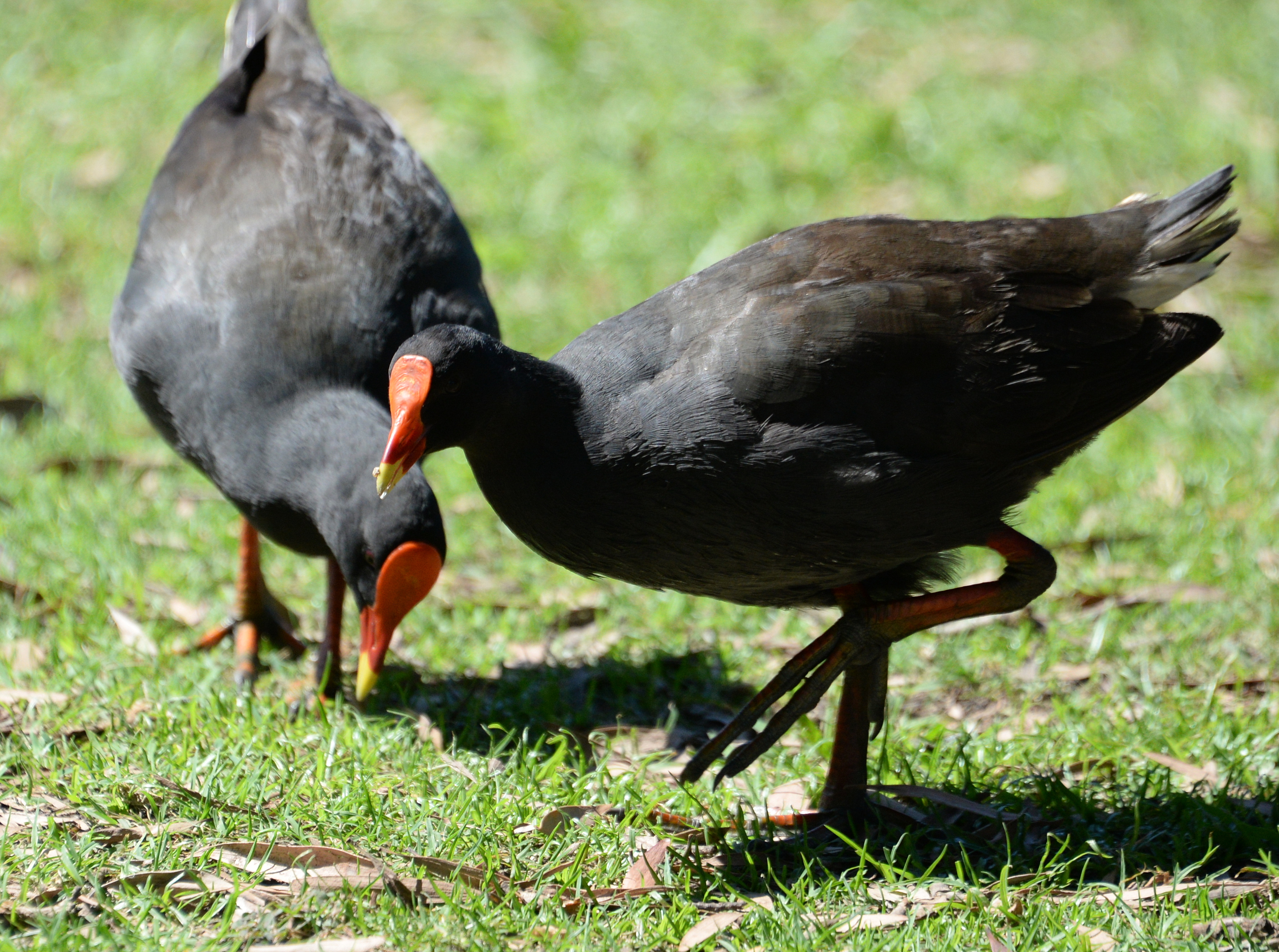 Moorhen, Centennial Park, Sydney